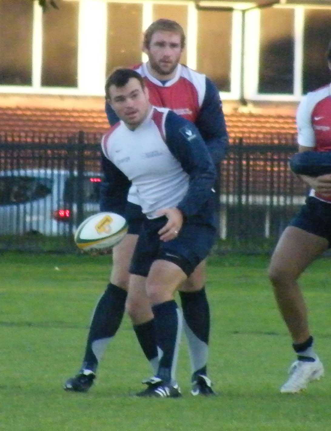 Nicolas Mas - French Rugby Union Training - Moore Park, Sydney 23 June 2009.